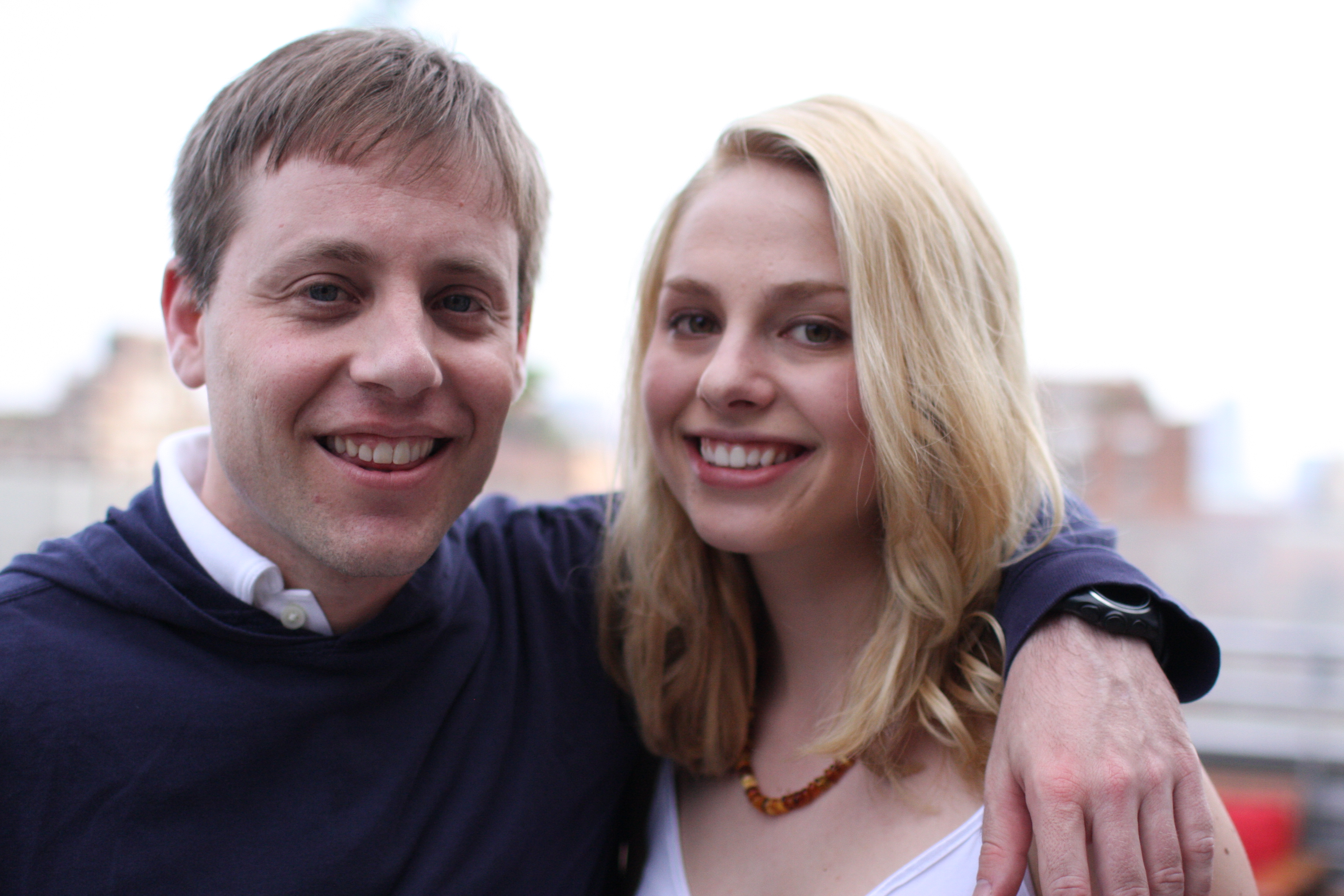 TechSet Internet Week @Gansevoort - Andrew Baron and Sarah Austin. (CC) Brian Solis, and . Feel free to use this picture. Please credit as shown.